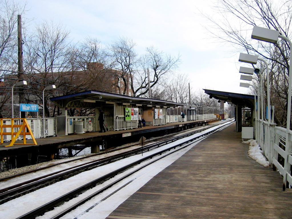 Main station on the CTA purple line in Evanston, Illinois.